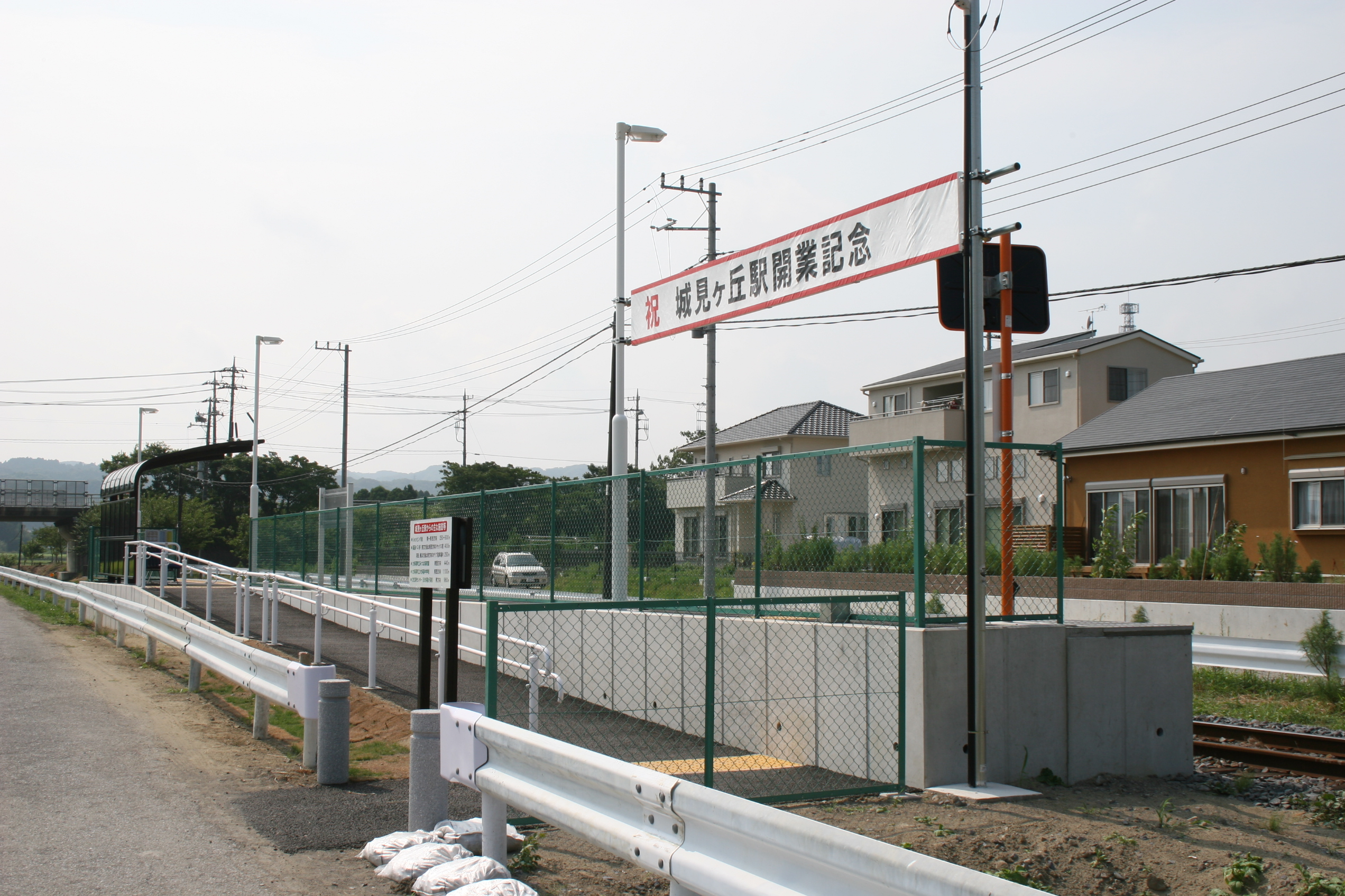 Shiromigaoka Station on the Isumi Railway in Otaki, Chiba with a signboard cerebrating the opening of the station four days ago.